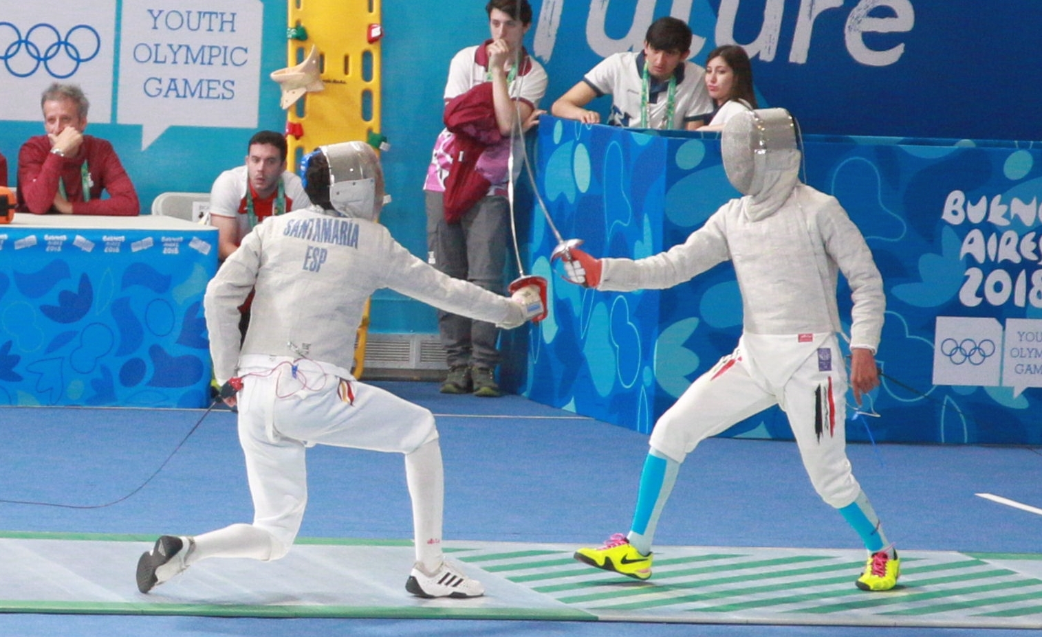 Fencing at the 2018 Summer Youth Olympics – Boys' sabre Round of 16 – Alonso Santamaría (ESP) Vs Mahdi Mahbas (IRQ) 15:9